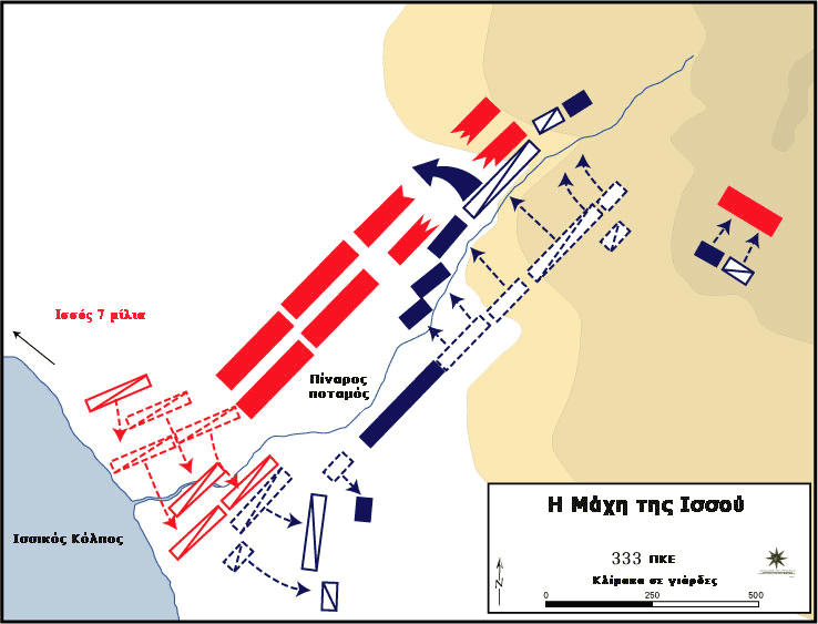 linguistic manipulation of english map on Alexander's decisive attack on Issus Battler